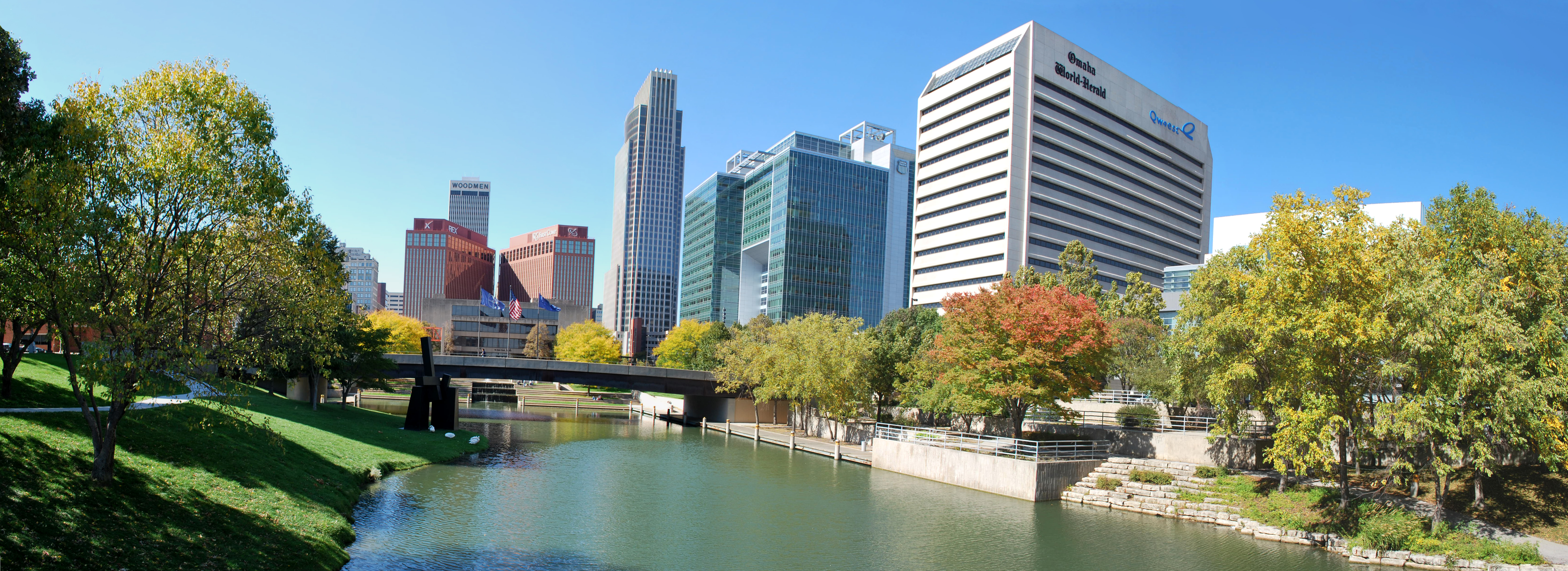 Downtown Omaha